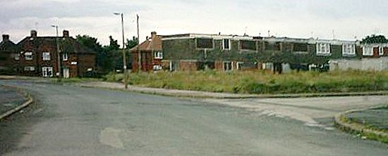 South Parkway area of Seacroft, Leeds Removed from the following pages: Council house Seacroft --OrphanBot (talk) 06:44, 27 June 2008 (UTC)